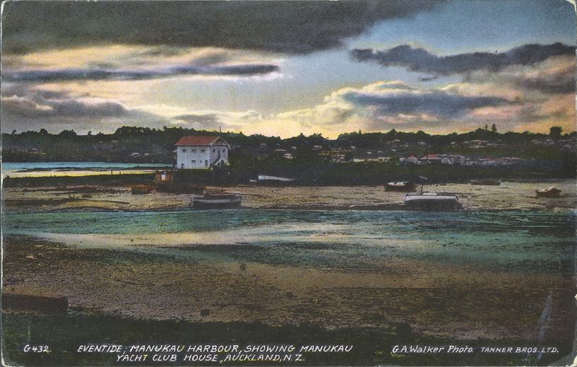 Postcard from around 1910 showing view of Hopua crater